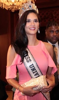 Miss Universe 2015 Pia Wurtzbach makes her way towards the Music Room in Malacañan Palace to meet President Rodrigo R. Duterte for a courtesy call on July 18